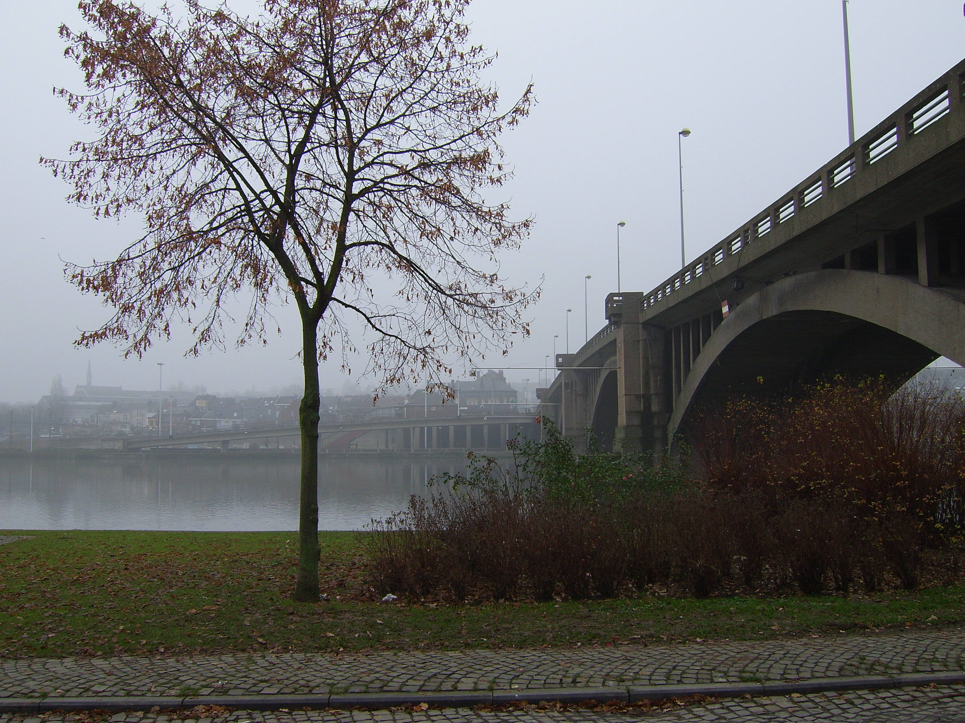 Bridge over the Maas river with Wezet in the background.